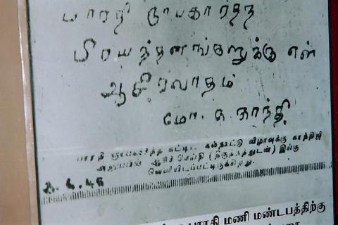 This is a photograph of writing by Mahatma Gandhi in Tamil language wishing the effort to build a monument in memory of poet Subramania Bharati at Ettayapuram.